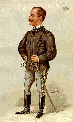 Caricature of Victor Emmanuel III of Italy. Caption read "Italia".